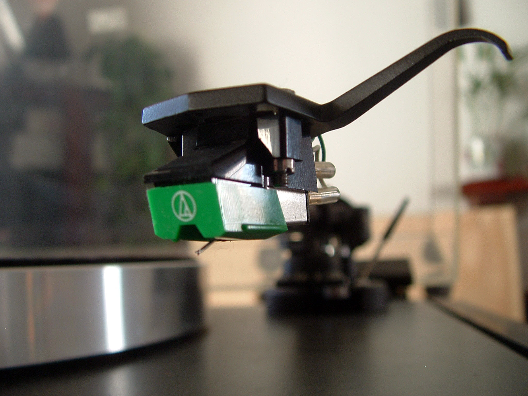 Linn Axis + Basik LVX arm + AT95e cartridge